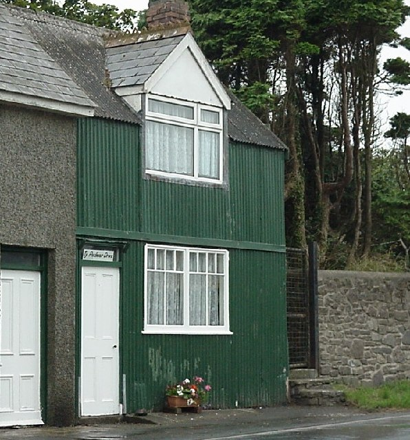 Ty Pedwar Drws. A 'ty sinc' or tin house on the main A487 at Croesgoch.These corrugated iron houses are now disappearing quickly from Pembrokeshire.